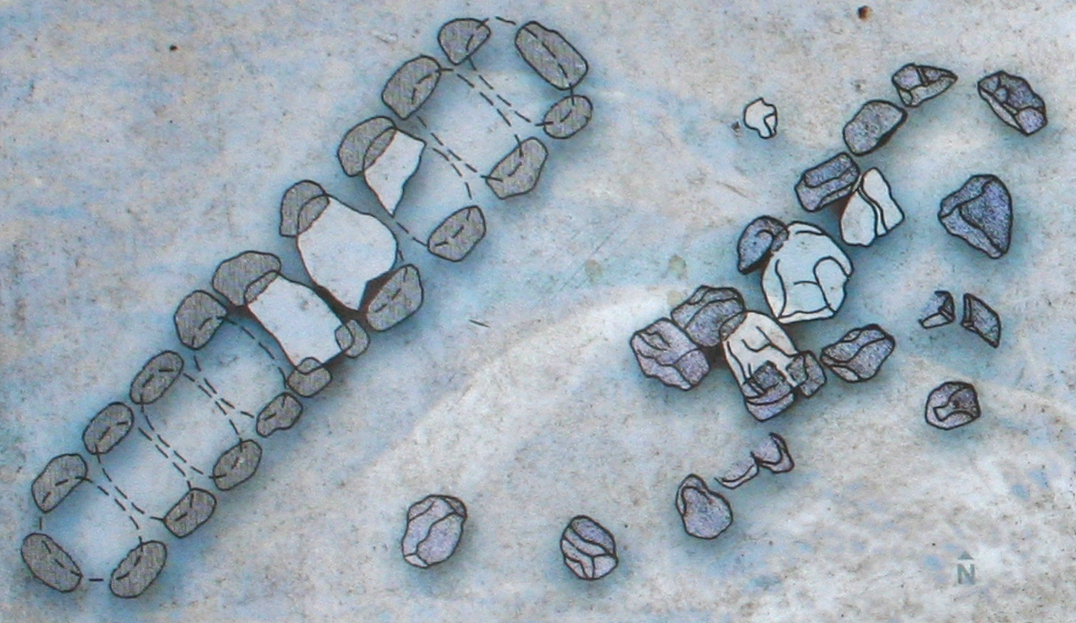 Megalithic tomb Stenum